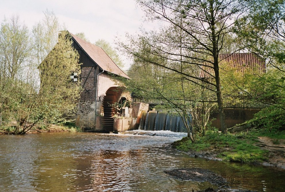 Watermill in Sythen, Germany.